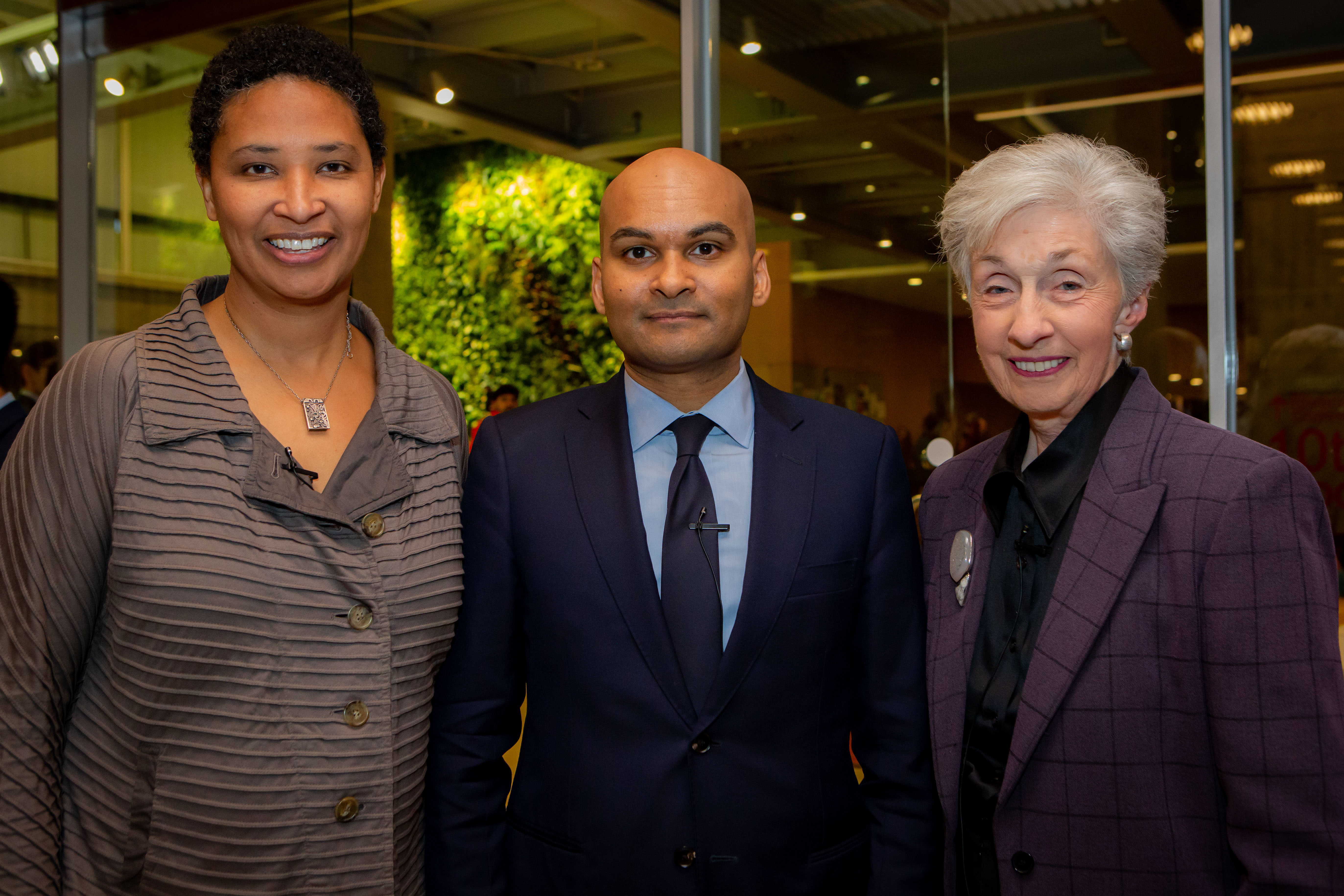 Civil Disagreements: Immigration with Doris Meissner and Reihan Salam